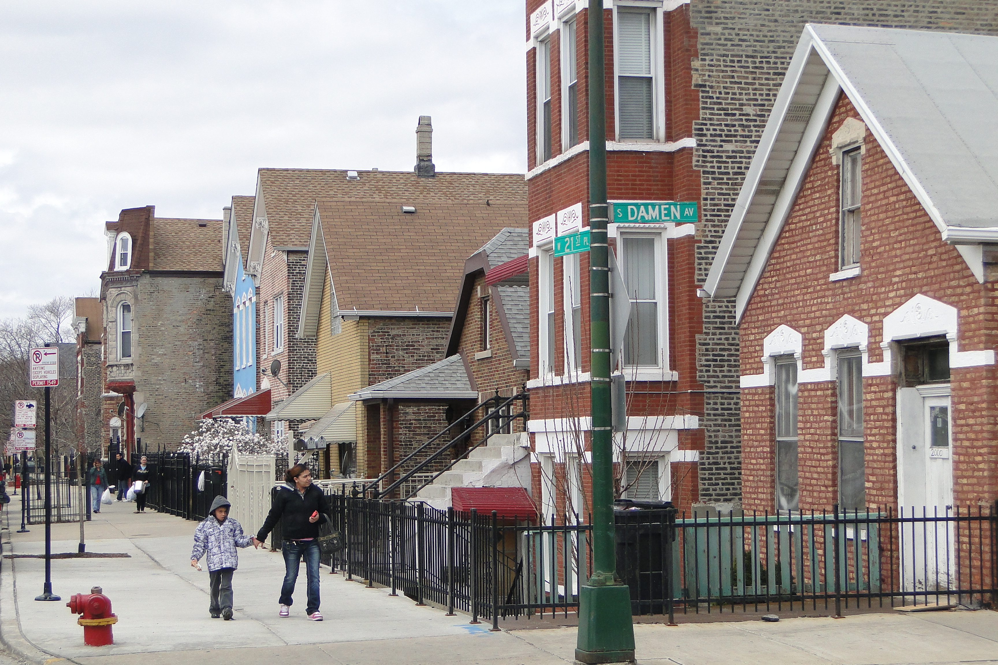 Architecture in Pilsen Neighborhood - Chicago - Illinois - USA - 01